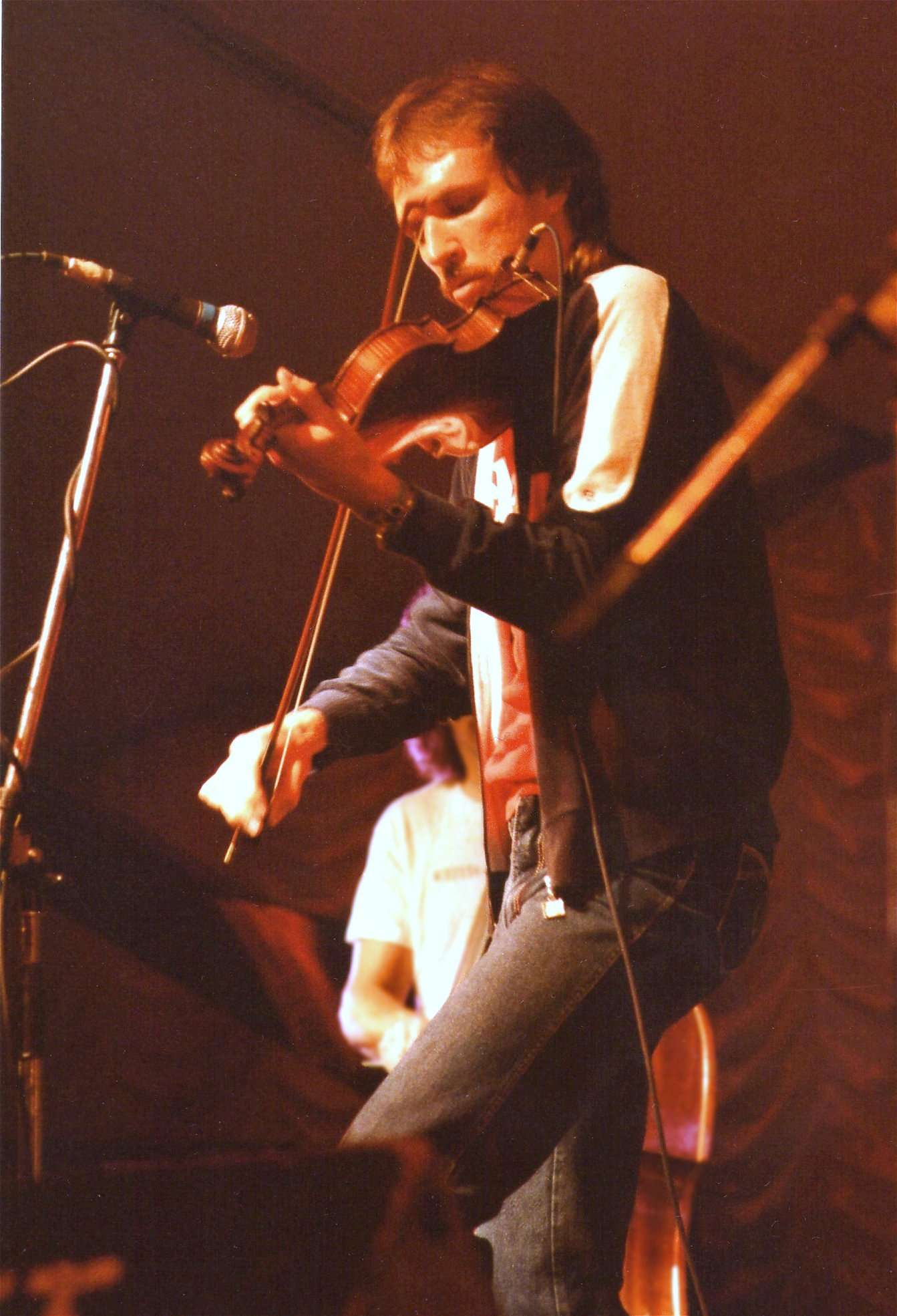 Mark O'Connor, bluegrass musician on stage at the Cambridge Folk Festival, July 1985 (photograph by Tony Rees)